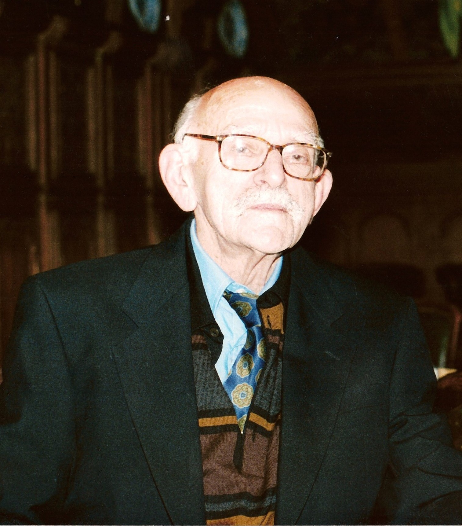 Hugo Pos, writer and poet from Suriname